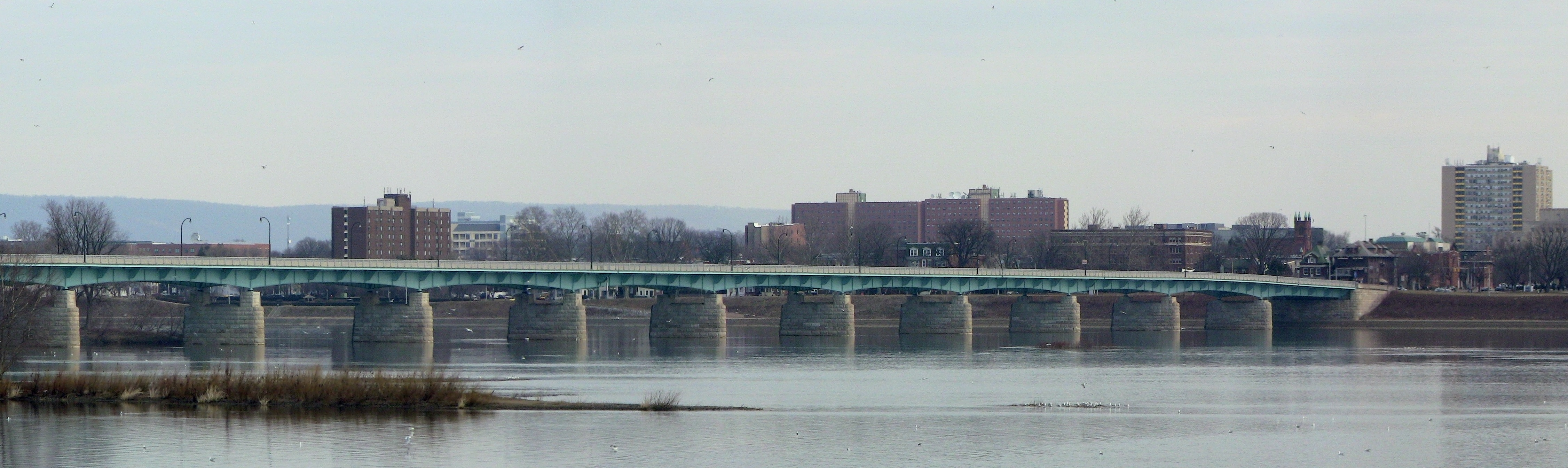 Orginal description: A panoramic view of Harrisburg, the state capital of Pennsylvania, from Wormleysburg, across the Susquehanna River from downtown. The view extends from the M. Harvey Taylor Memorial Bridge on the left, across the Harrisburg skyline, including the Pennsylvania State Capitol and City Island (including Metro Bank Park, to the partially collapsed Walnut Street Bridge and the Market Street Bridge beyond to the right. The Susquehanna River is in the foreground. This panorama is assembled from 23 individual images, taken left-to-right, and later stitched together.